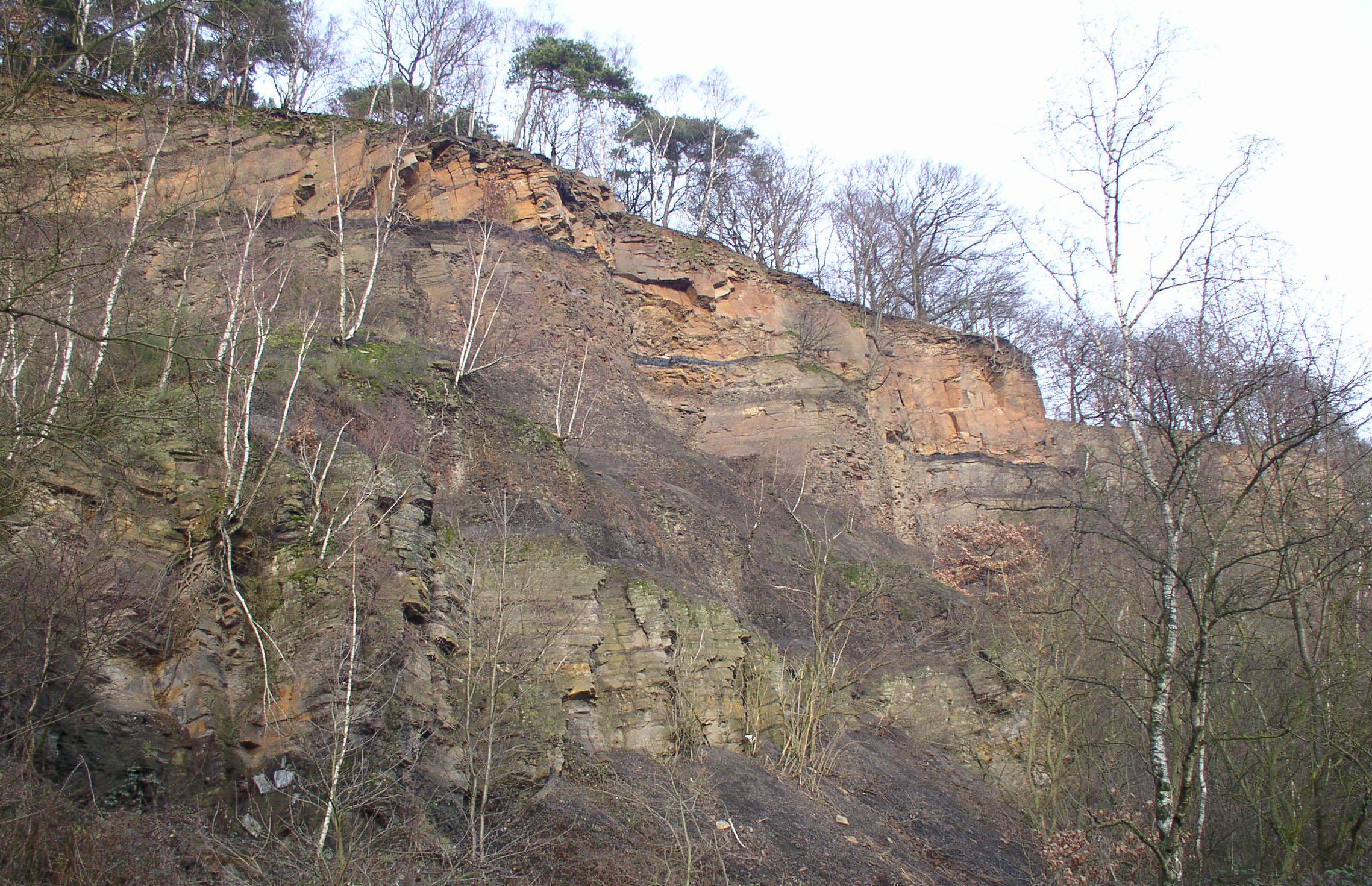 Excavated coal seam in the backward area of the Nachtigall coal mine in Witten, Germany